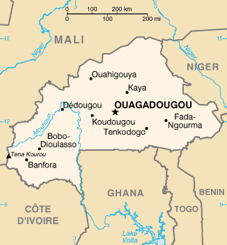 Burkina Faso map from CIA World Factbook (2004)